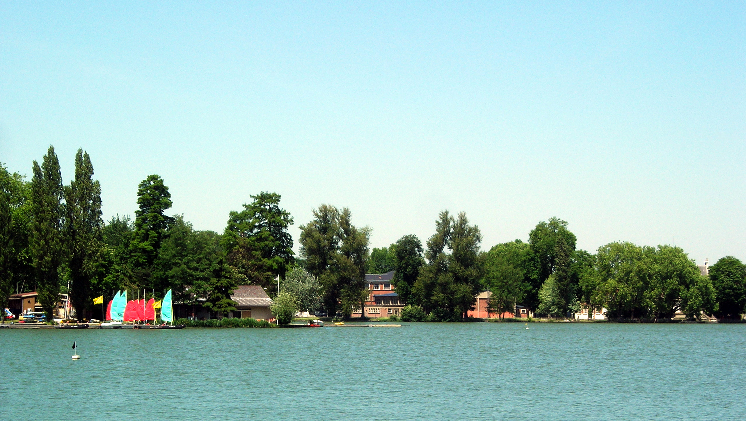 Description =Lac et lycée d'Enghein Source =Photo taken by Remi Jouan Date =Juin 2006 Author =Remi Jouan